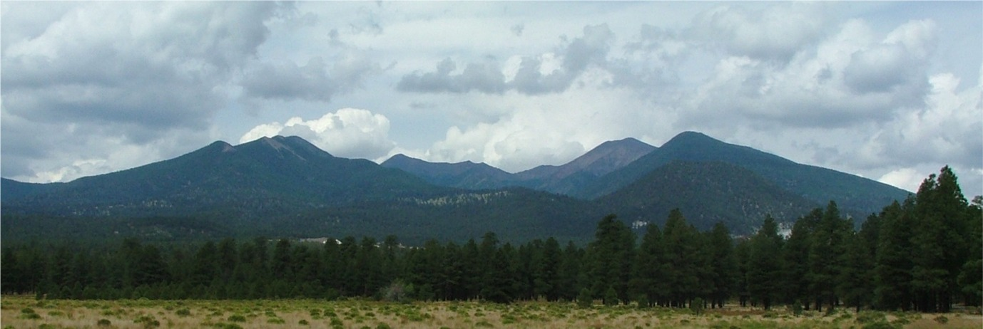 Humphreys Peak, north of Flagstaff, Arizona